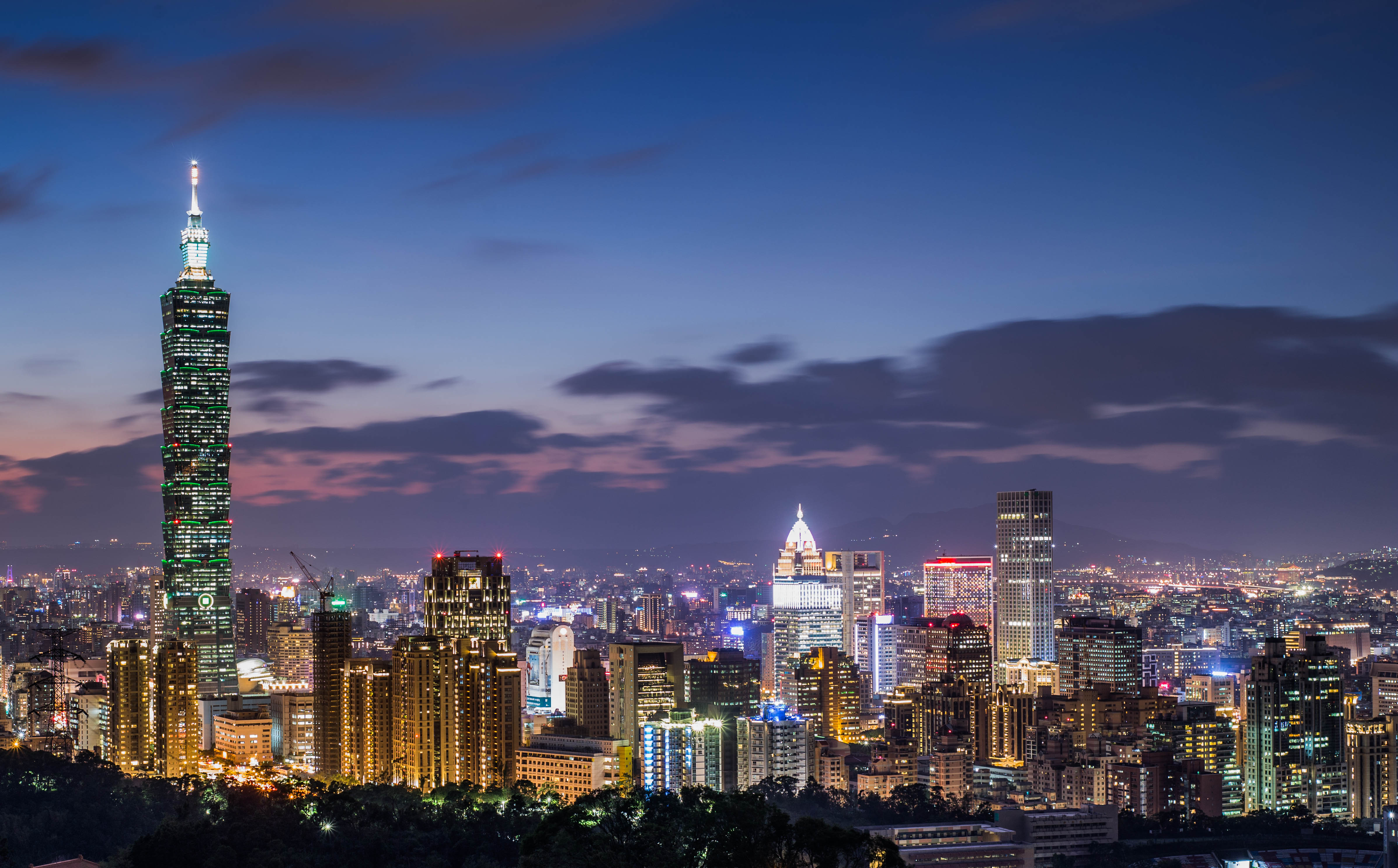 Taipei, Taiwan skyline at night in October 2015